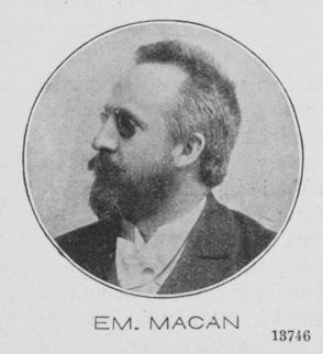 Portrait of Karel Emanuel Macan (1858-1925), blind Czech composer and teacher of music.